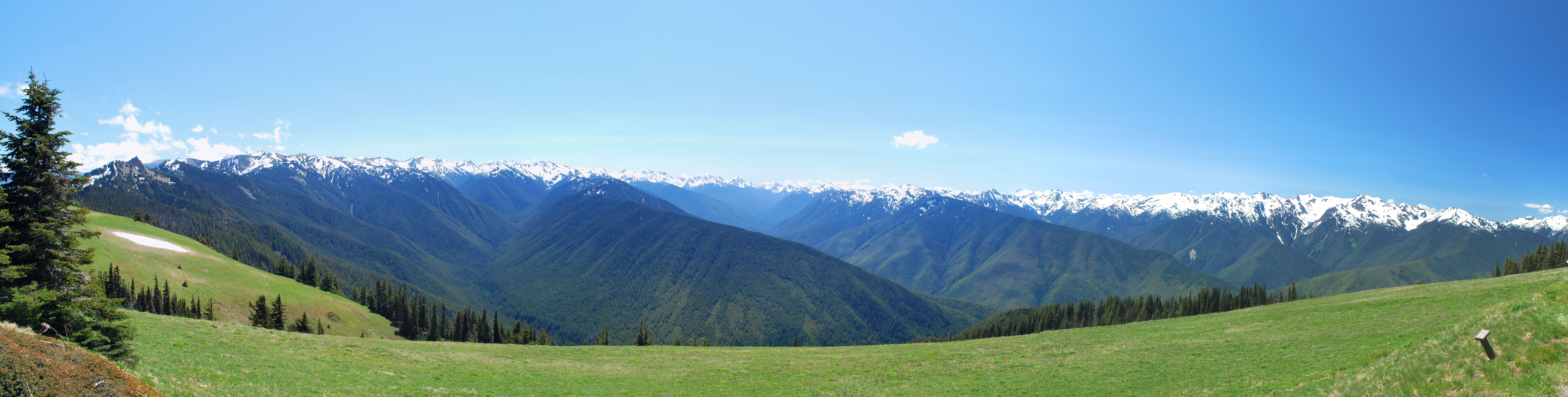 Panoramic view of the Olympic National Forest taken at Hurricane Ridge